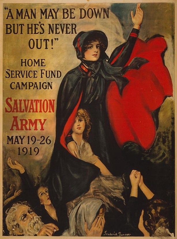 "'A man may be down but he's never out!' Home Service Fund Campaign. Salvation Army. May 19 — 26 1919." Salvation Army poster.